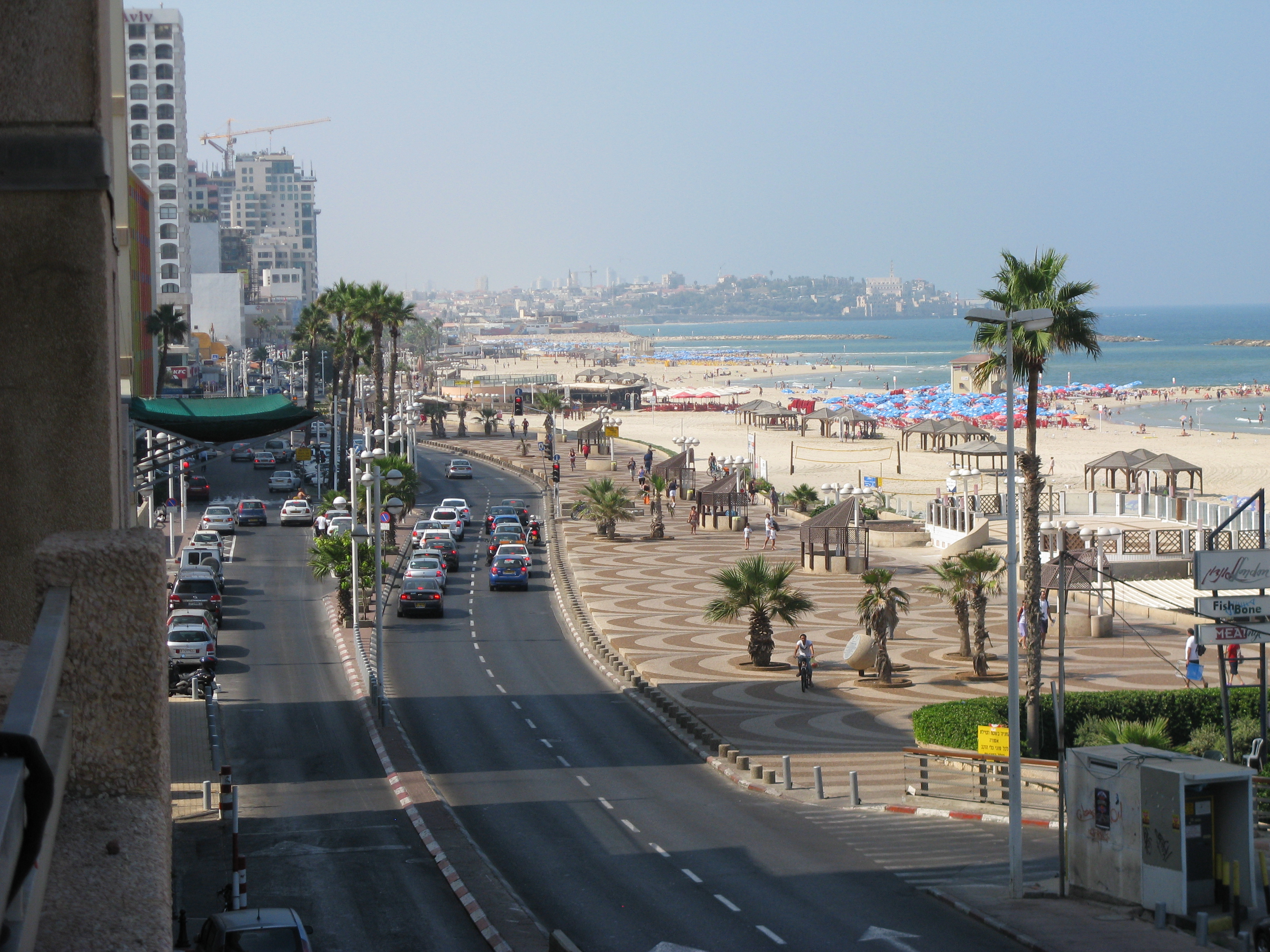 Tayelet of Tel Aviv